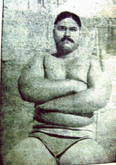 Image of Bhabendra Mohan Saha (1890 - 1922), renowned weight lifter.